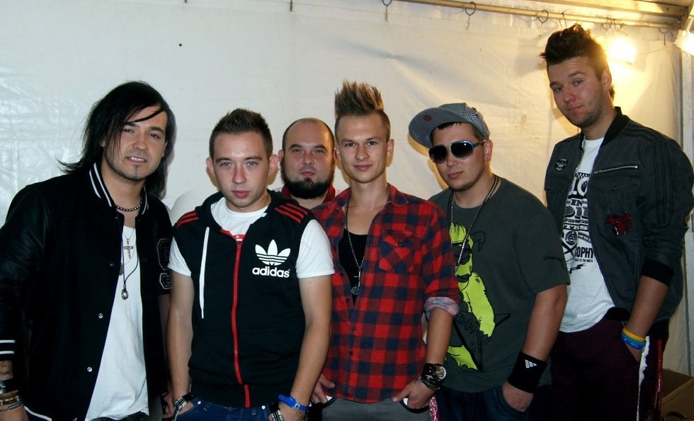 Polish-Ukrainian rock band, 2012